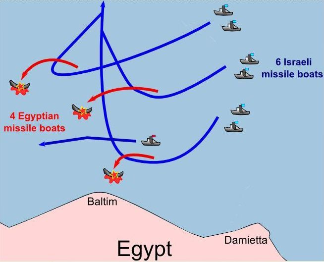 Map of the battle of baltim